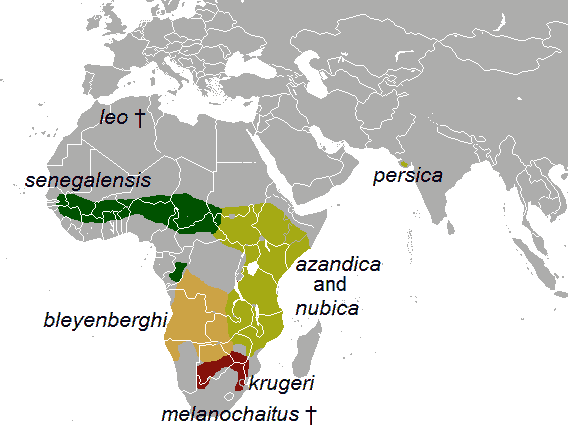 Range map of the commonly accepted subspecies of the lion (Panthera leo) in the second half of the 20th century (azandica and nubica are not seperately distinguished because the type specimen of azandicus (northeastern Kongo) does not fit into the subspecies range in the original map) Reference: Haas, S.K.; Hayssen, V.; Krausman, P.R.. Mammalian species - Panthera leo. 2005 Mammalian Species (762): 1-11. pdf